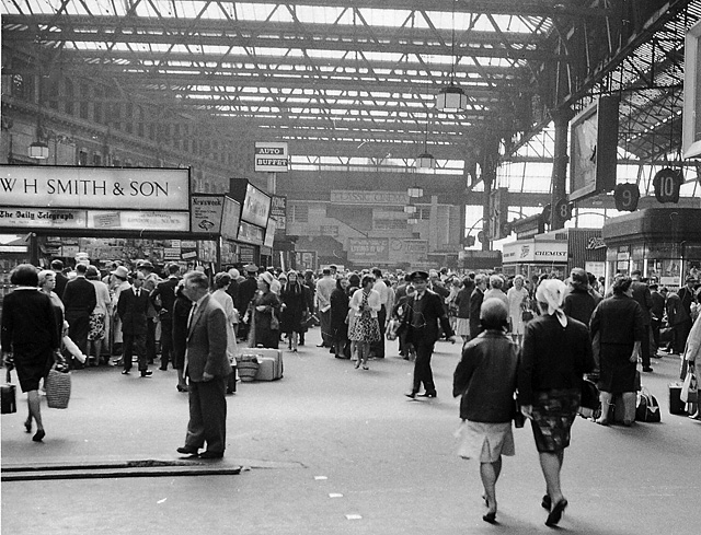 Waterloo (Main) Station, concourse, View NE from Platform 1 end. Compare with 1955 view TQ3179 : Waterloo (Main) Station, concourse - not so very different nine years later.